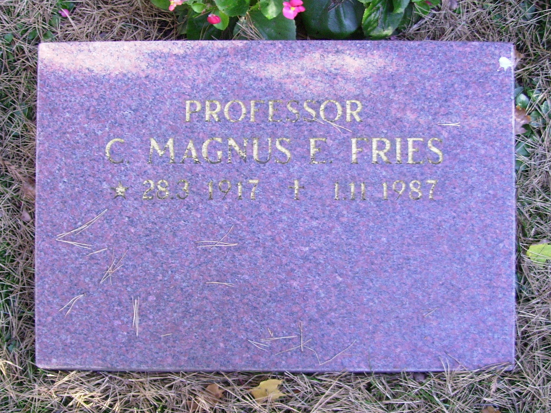 Picture of C. Magnus Fries grave at Norra begravningsplatsen in Solna